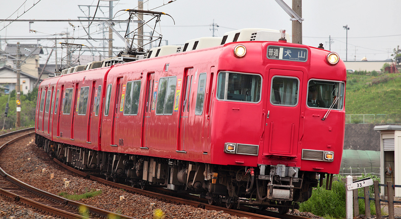 Meitetsu 6000 series EMU ( 6016F ), between Haba Sta. and Unumajuku Sta.